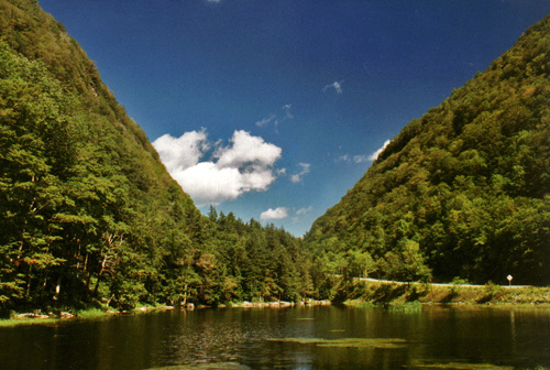 Photographed by Daniel Case on 1999-09-11. Scanned 2006-03-03